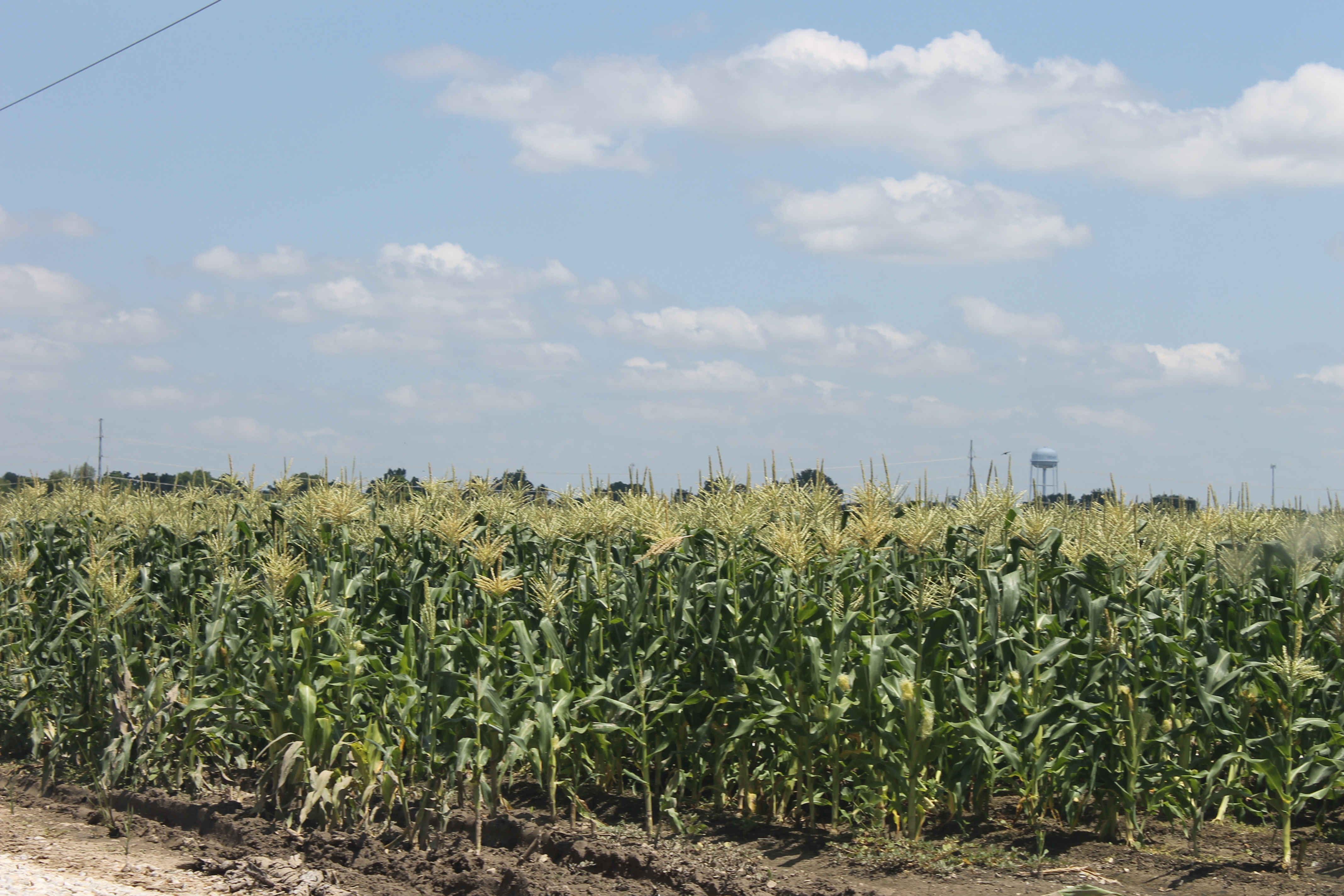 Corn field in Vidalia, LA